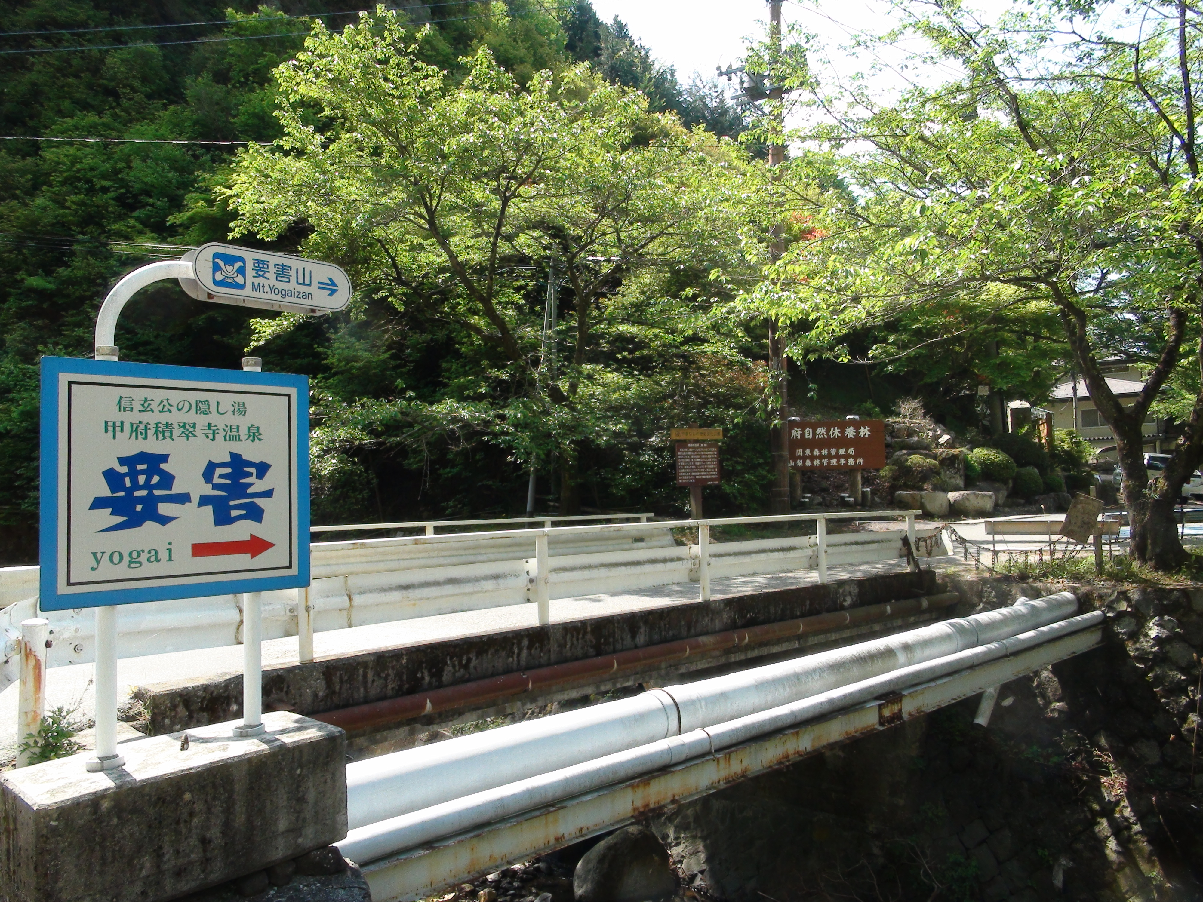 Sekisuiji hot springs of Yogai